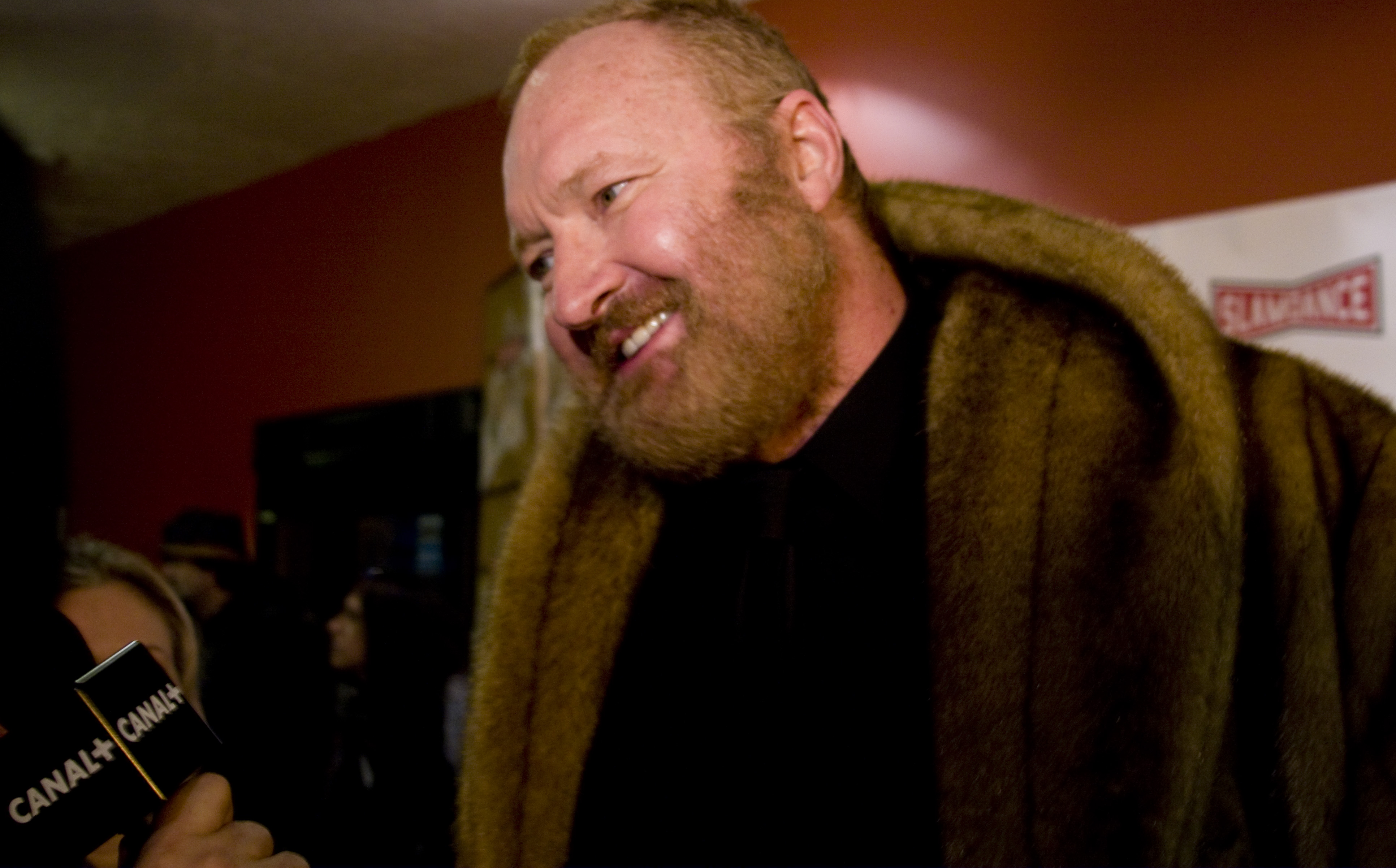 Randy Quaid being interviewed by Canal+.